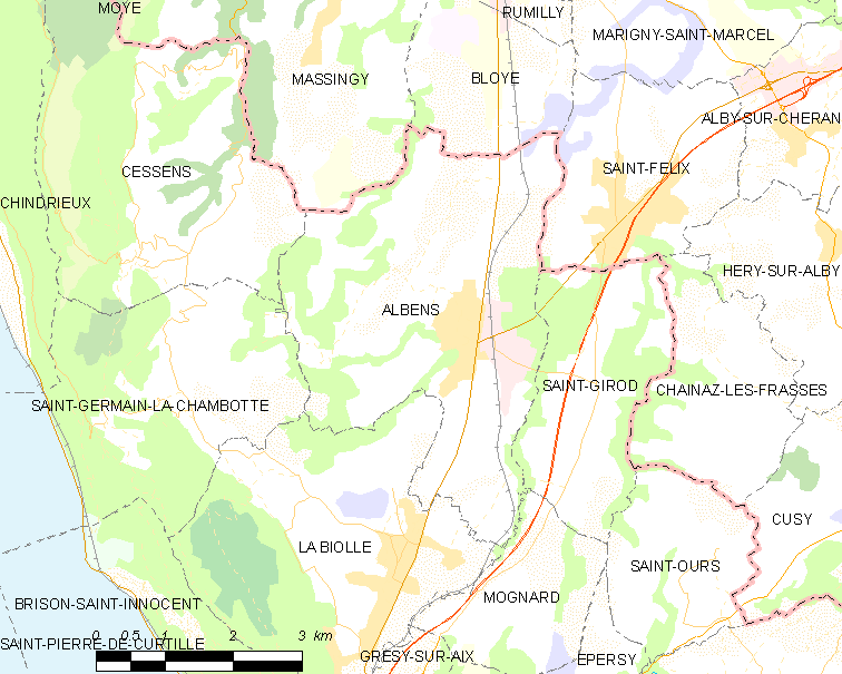 Map of French municipality